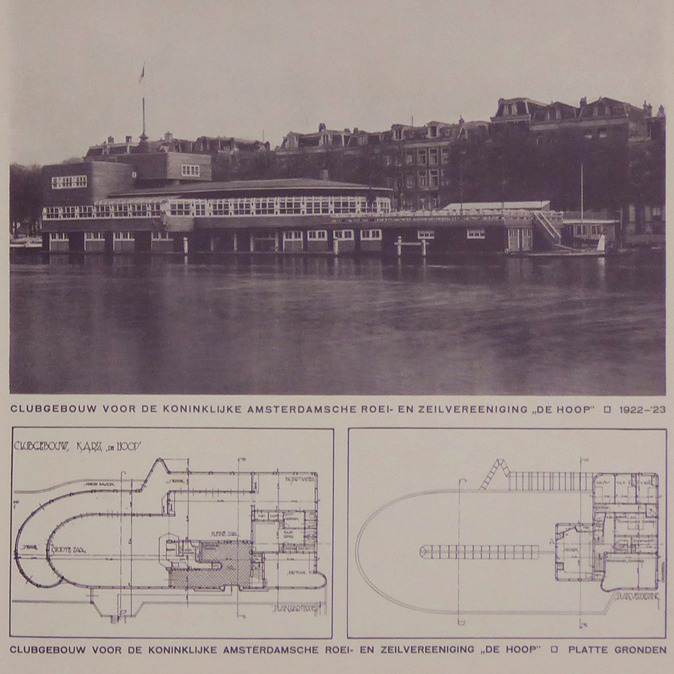 Architecture and art magazine WENDINGEN 1924-9/10, page 27. Issue with buildings by Michel de Klerk. Catawiki